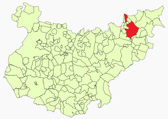 Talarrubias